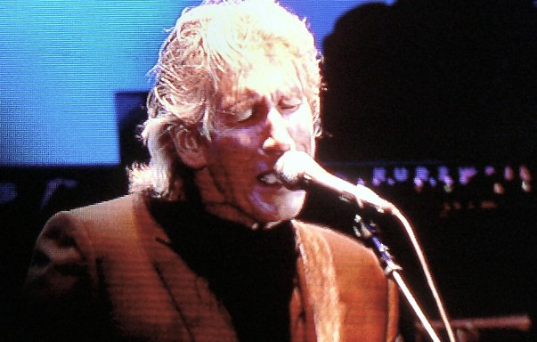 Roger Waters at Rock in rio, Lisbon, 2006